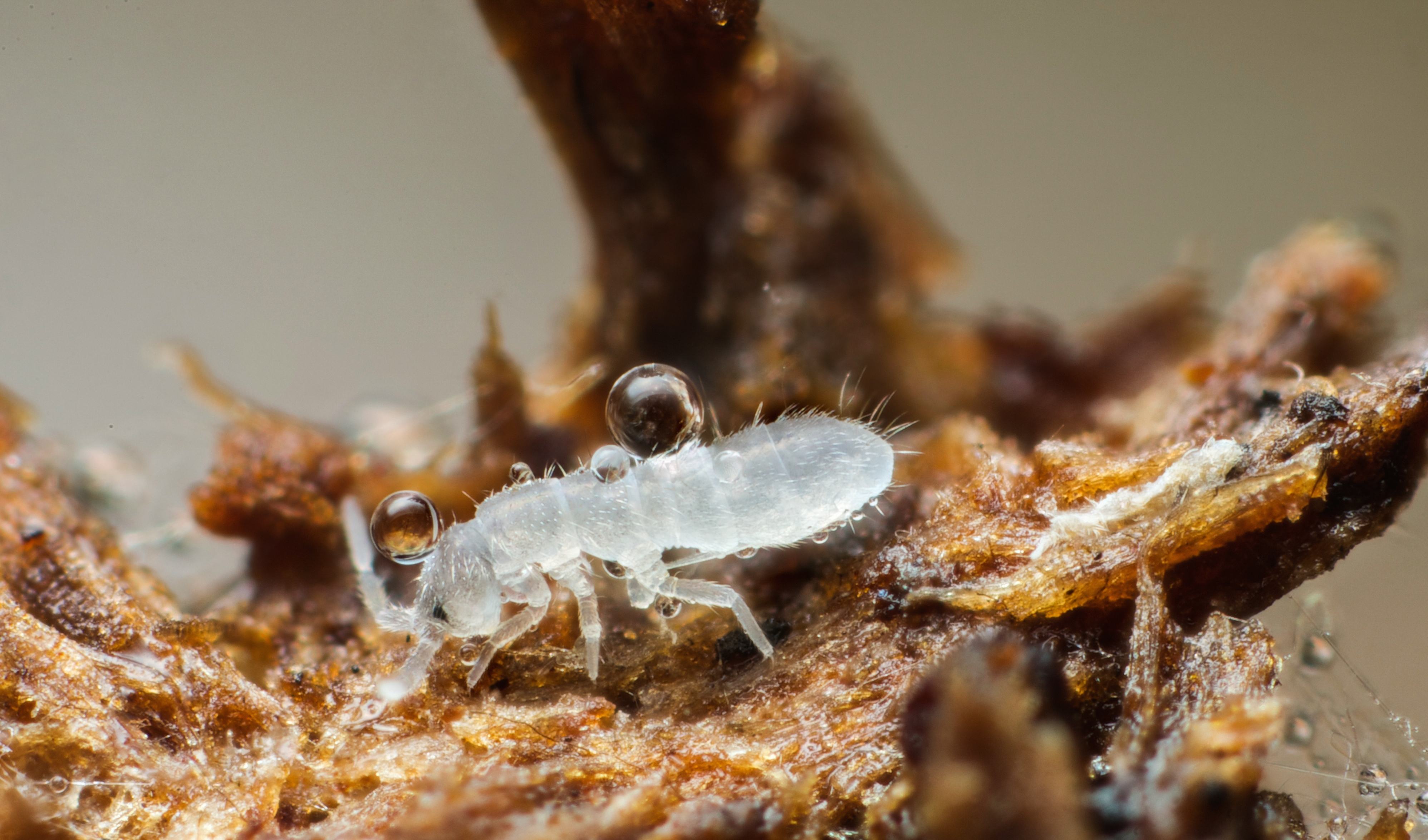 Original description on Flickr: A little chap from the Southern forest around Airwalk Tahune, dwarfed by the water droplets